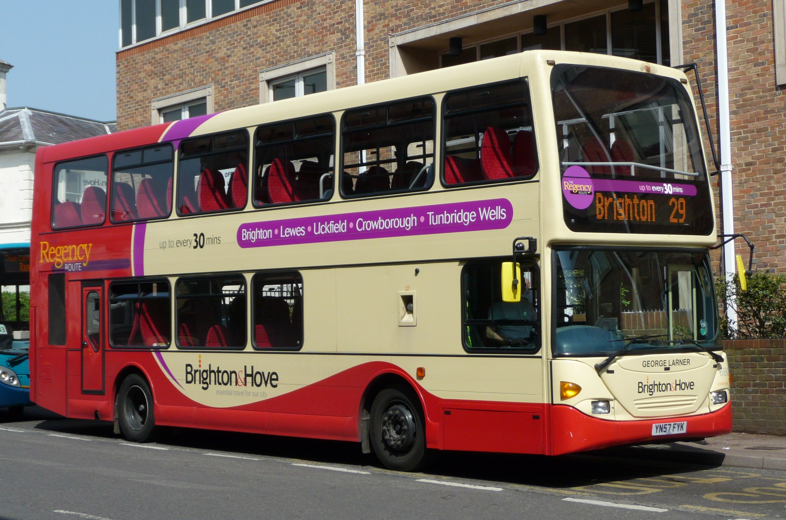 Brighton & Hove 680 George Larner (YN57 FYK), a Scania N270UD OmniDekka, in Meadow Road, Tunbridge Wells, on route 29.